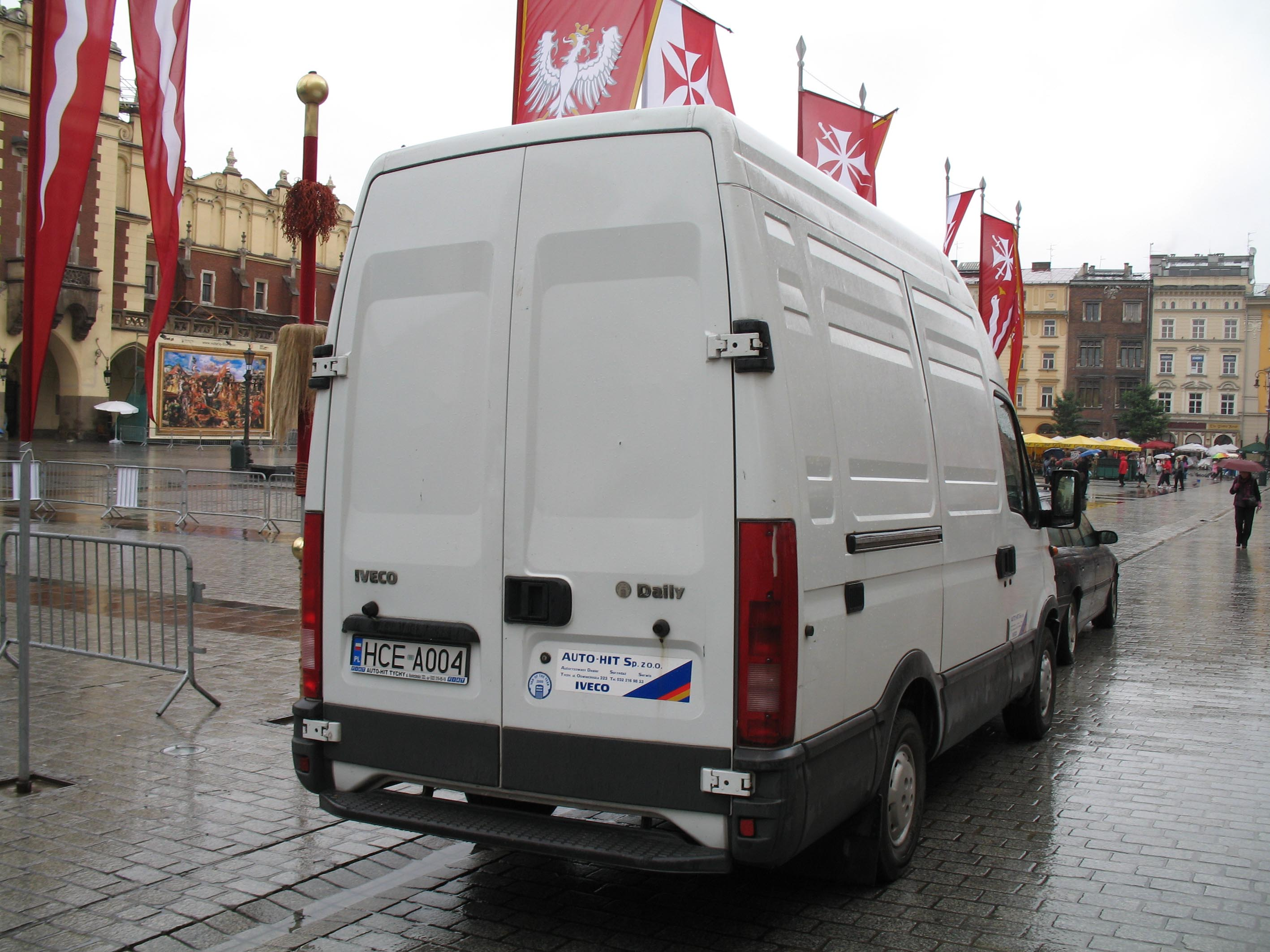 Iveco Daily 35S11 in Kraków, Poland. Van of the Year 2000.